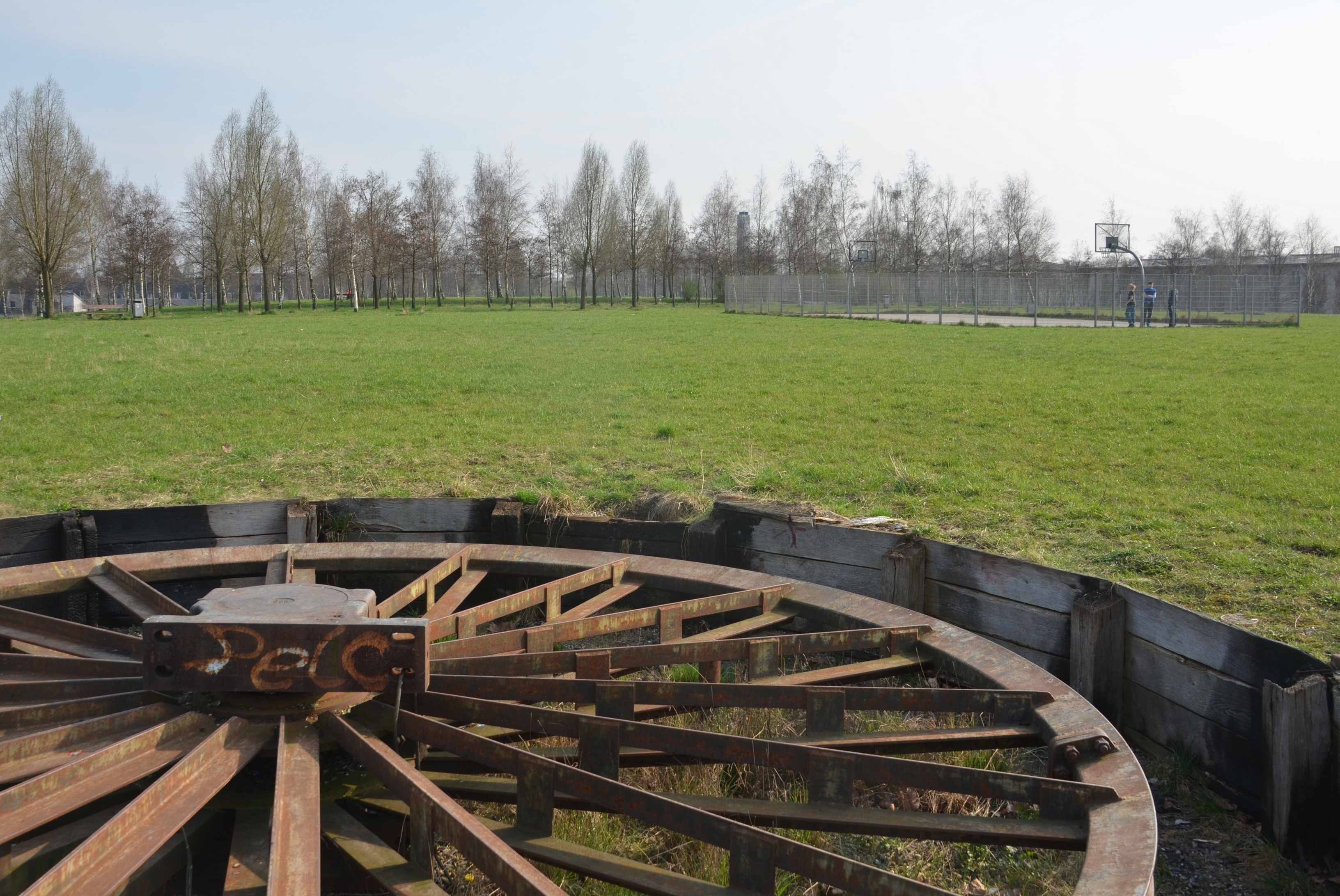 Prosper-Park in Bottrop